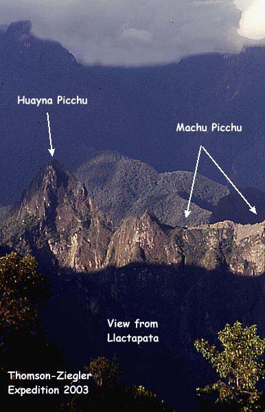 Gary Ziegler Email text... Dear Steve: You are welcome to use any of my Llactapata related images. Thanks for undertaking the update. It is badly needed. I added the correction paragraph some time ago but have not had time to do more. The site deserves a proper description. I would be happy to review and/or add suggestions before you publish. The other site at K 88 on the Inca Trail should be know as Patallacta to avoid confusion. The site name is from archaeologist Ann Kindal who worked there. Best, Gary